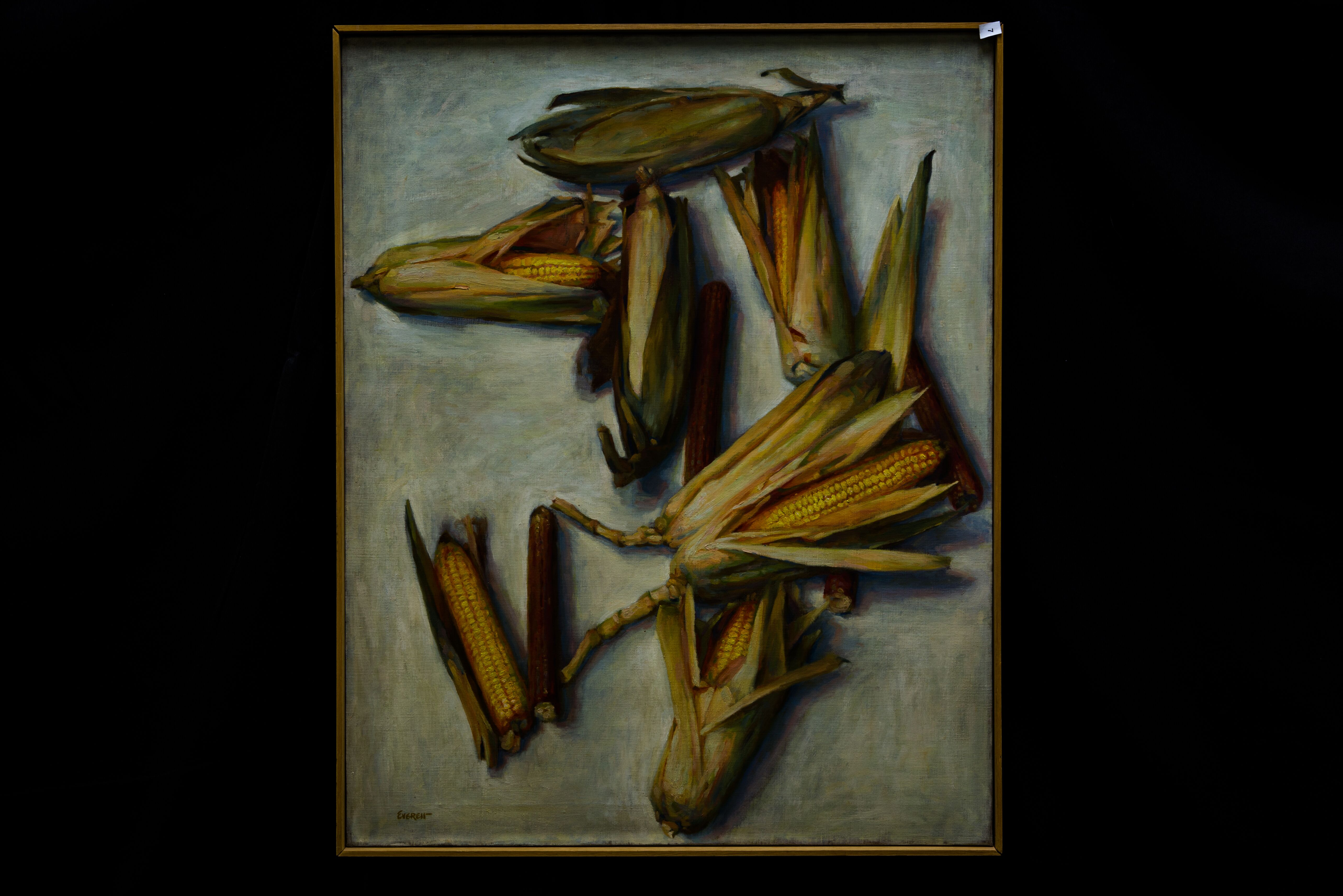 "Illinois Corn," Len G. Everett. Oil. Photo by Heath McPherson